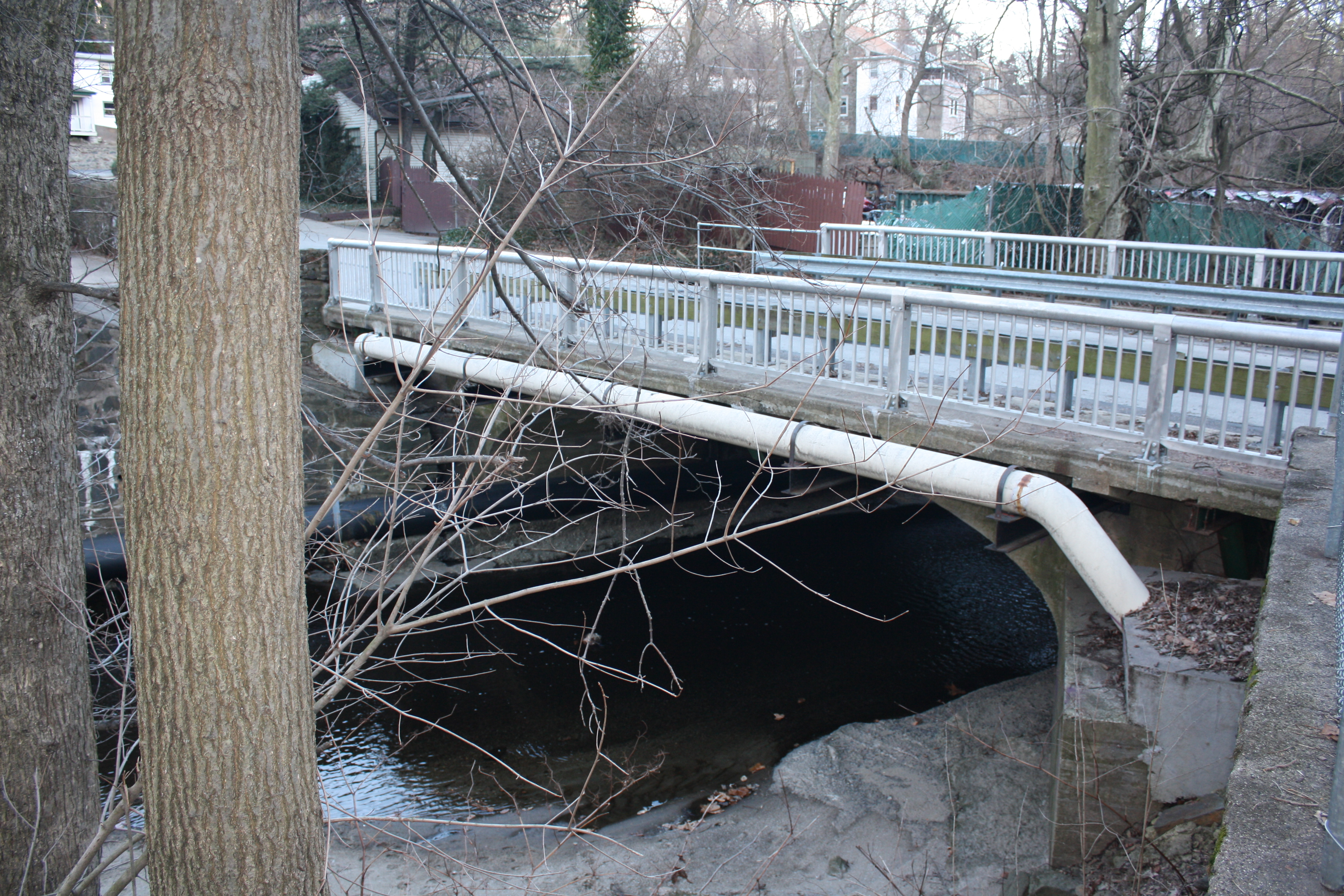 Mill Road Bridge over Tookany (Tacony, Frankford) Creek, a single-span concrete arch bridge, built in 1930. Cheltenham Township. Elkins Park, Pennsylvania, .